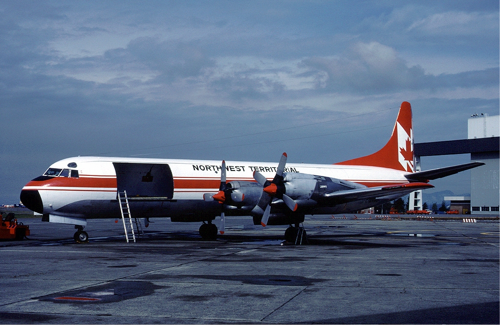 Northwest Territorial Airways Lockheed L-188C(F) Electra C-GNWD at Vancouver International Airport